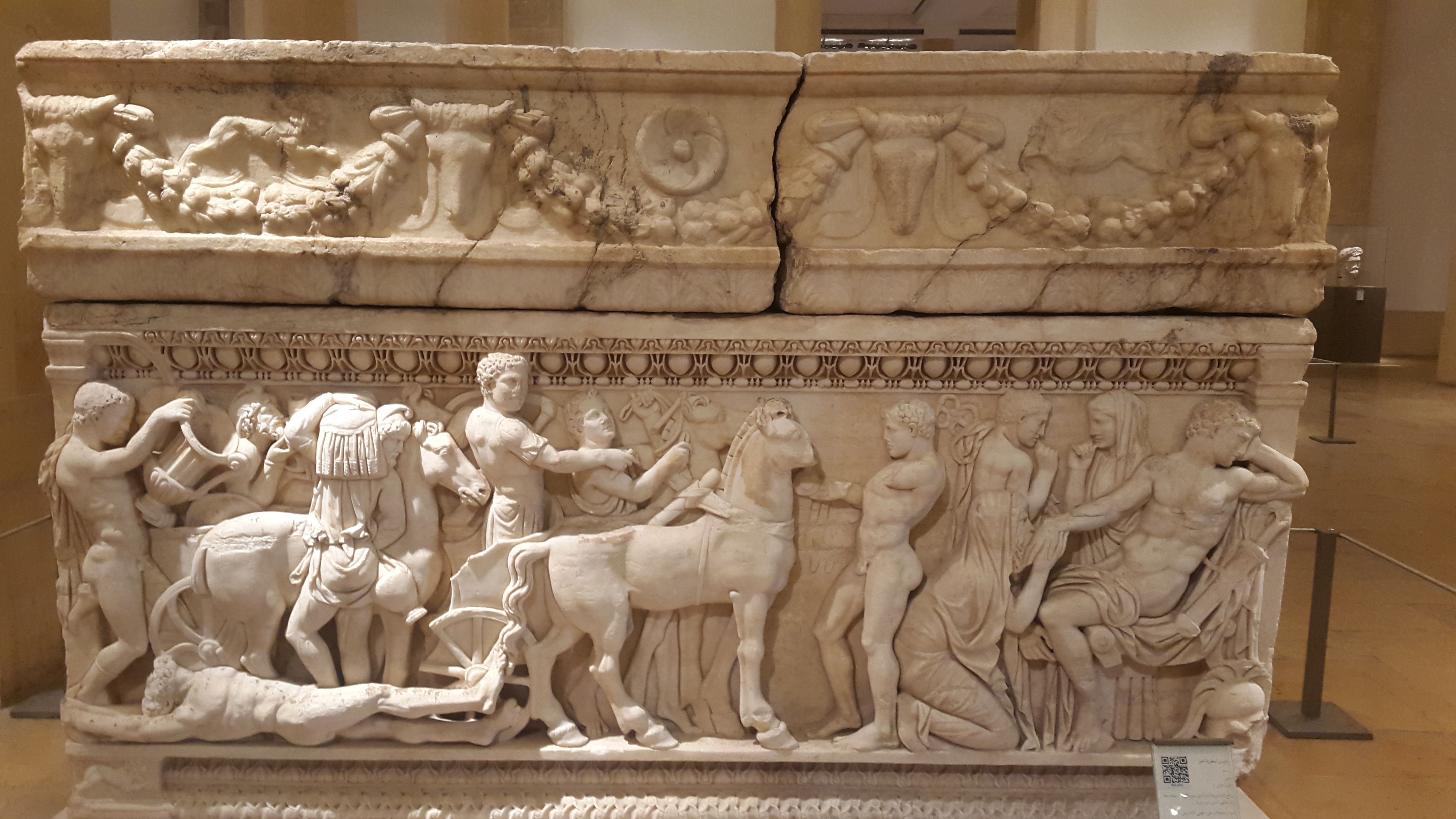 Sarcophagus with the legend of Achilleus found in Tyr